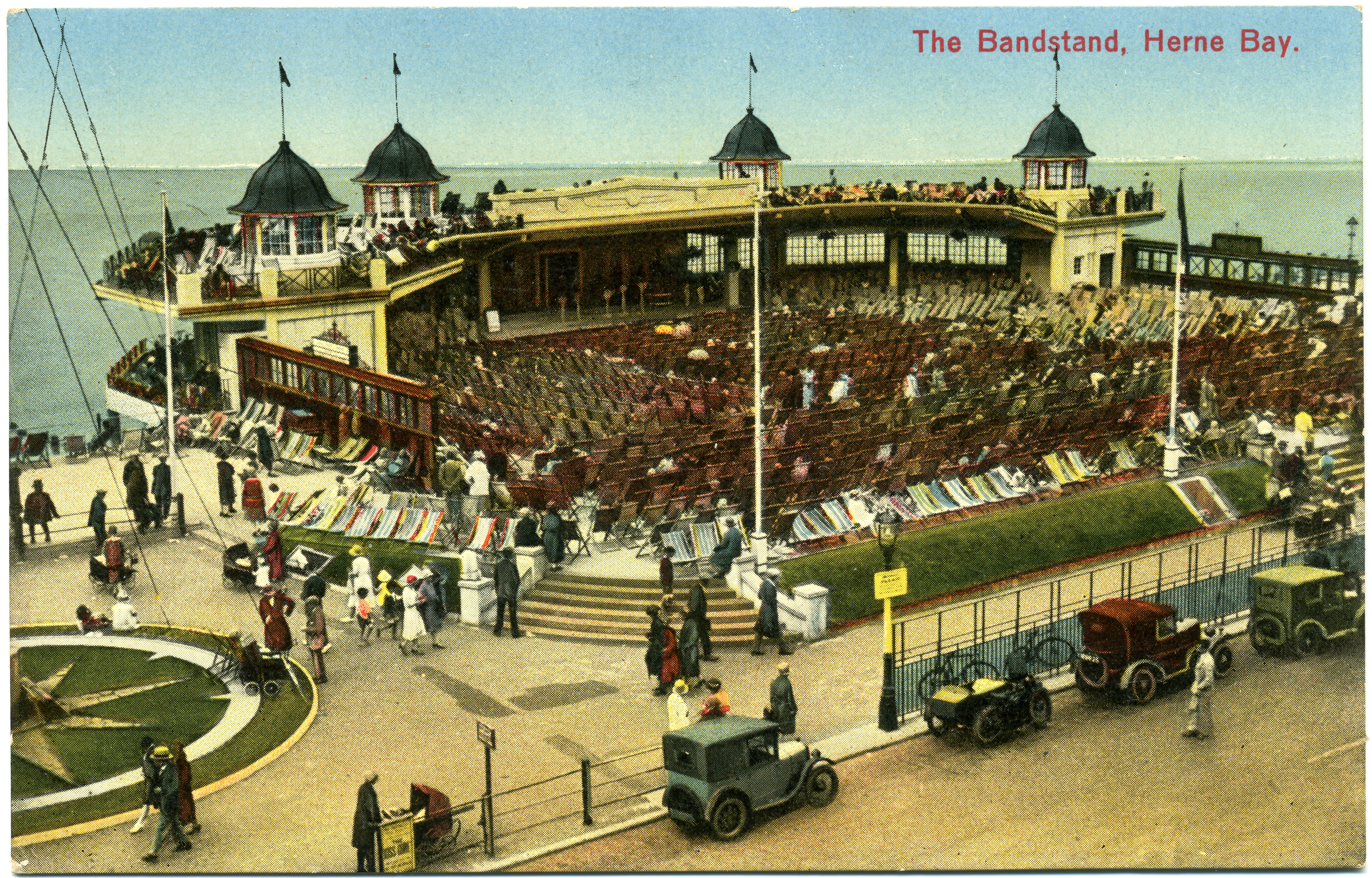 Central Bandstand, Herne Bay, Kent, England, designed by H. Kempton Dyson in 1924 and built of ferro-concrete (reinforced concrete). Photophraphed 1925-1929 because the deckchair area has been extended, but ladies fashions are still 1920s.